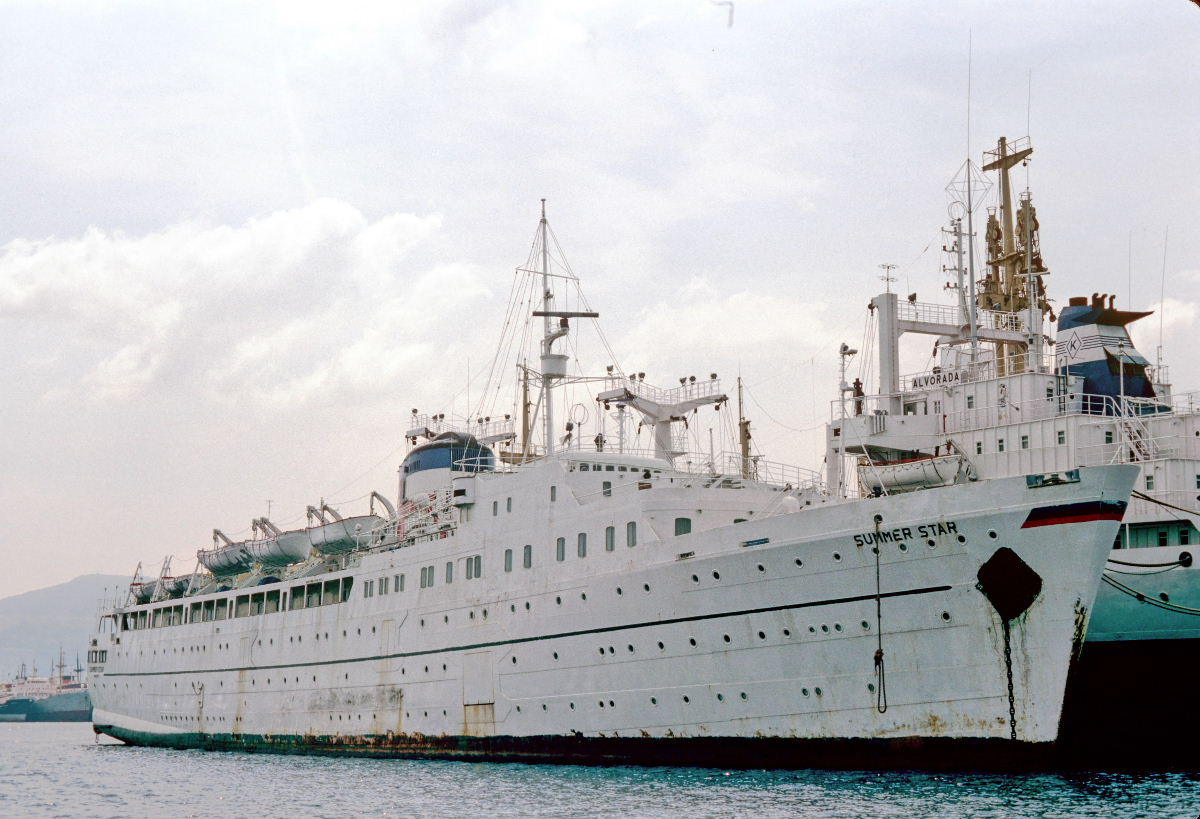 The cruise ship Summer Star laid up in Eleusis on July 7, 1986.